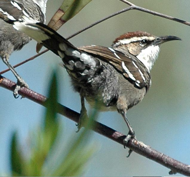 Chestnut-crowned Babbler (Pomatostomus ruficeps) Bowra, SW Queensland, Australia